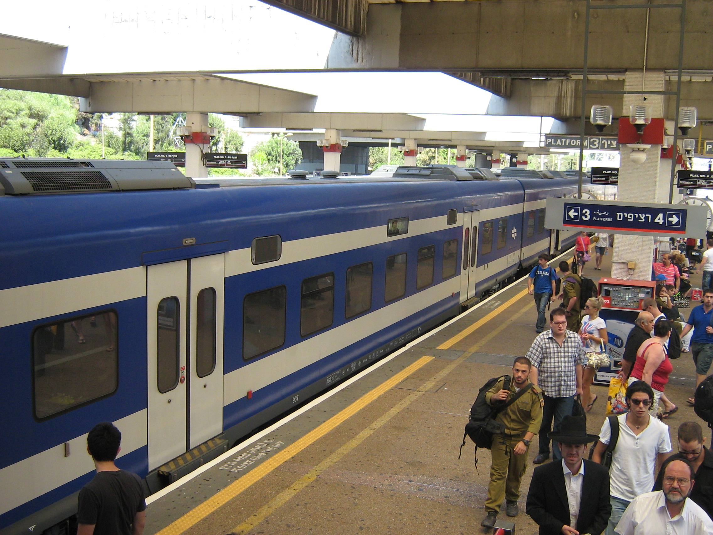 Tel Aviv Savidor Central Railway Station